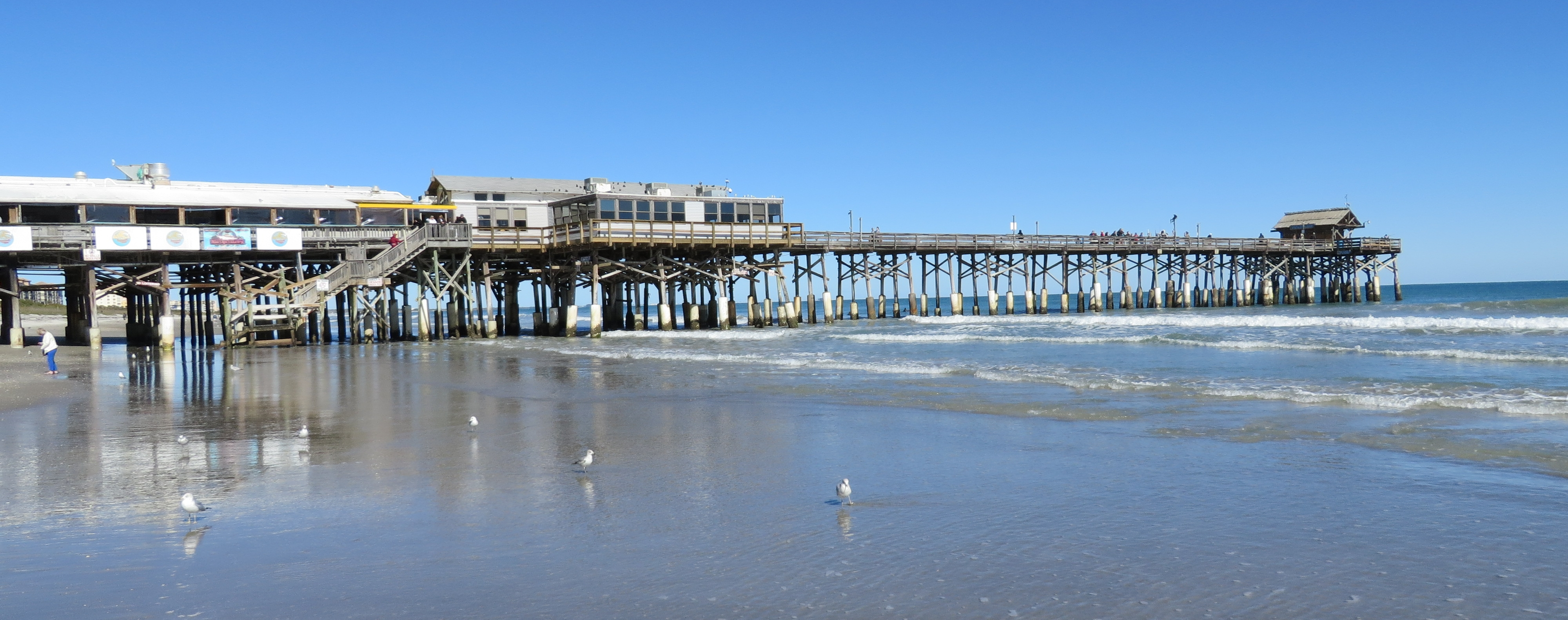 Cocoa Beach Pier, 401 Meade Avenue, Cocoa Beach, Florida.